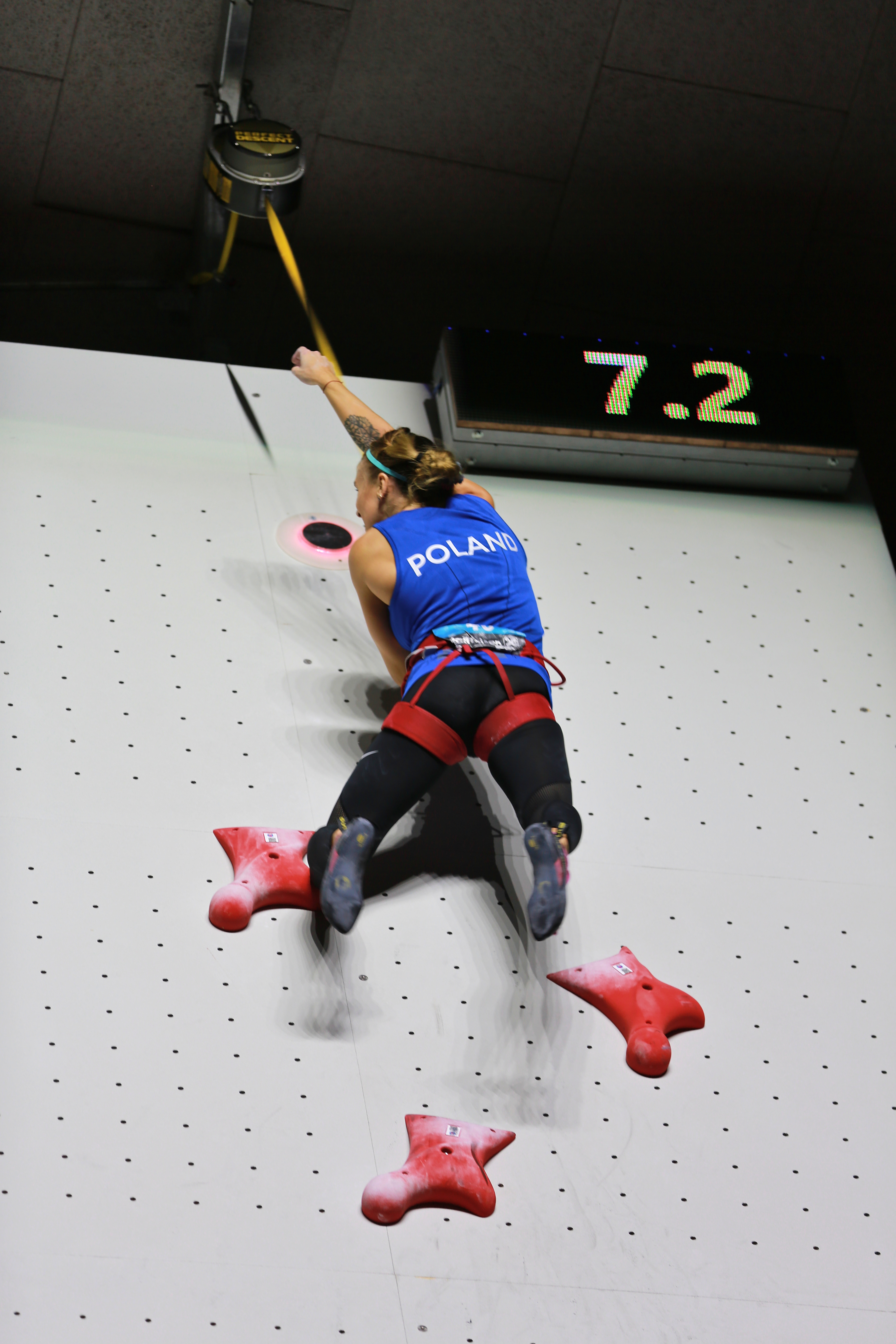 Climbing World Championships 2018 Speed Quarterfinals